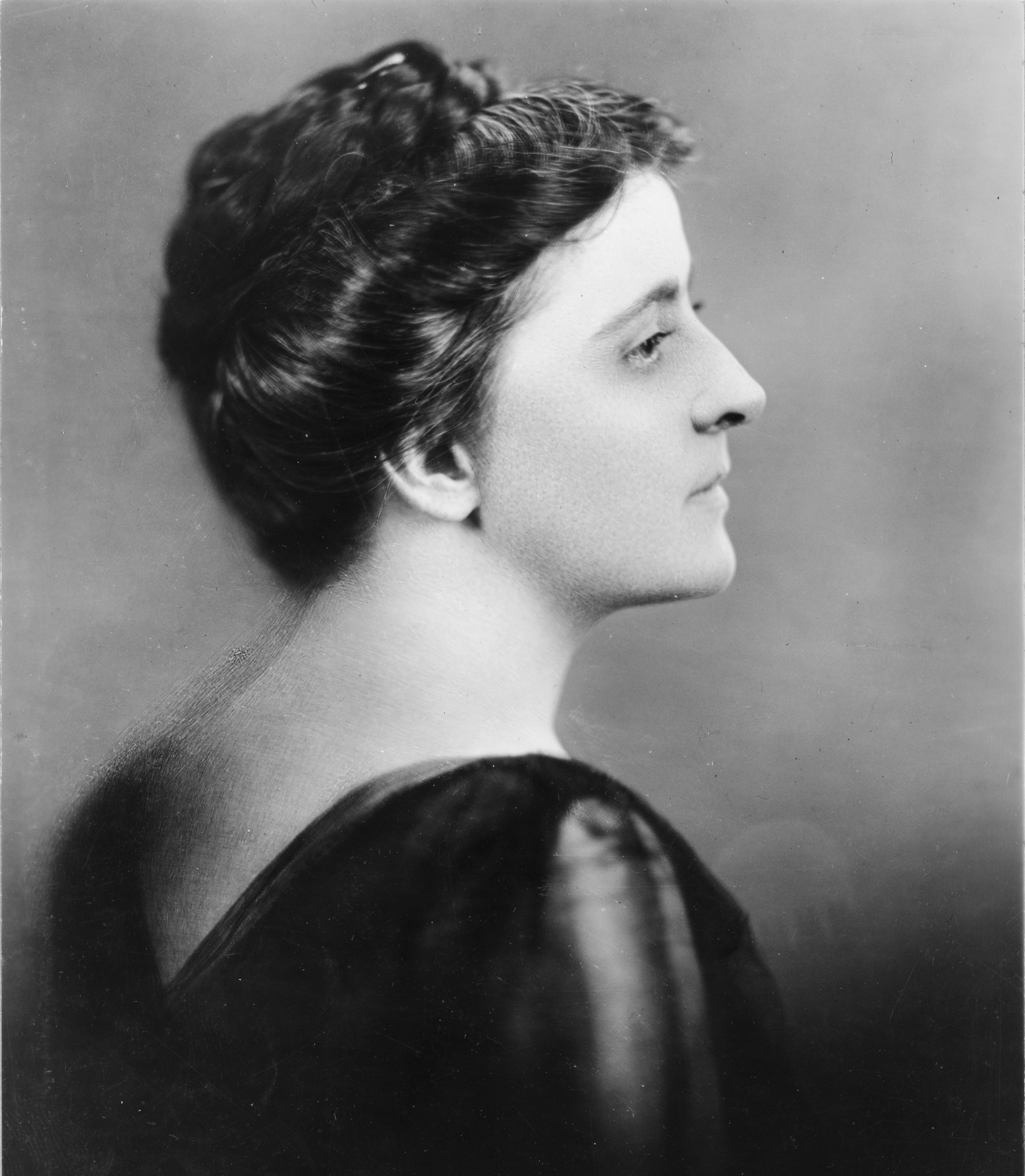 Title: Helen Woodrow Bones, cousin of President Woodrow Wilson, White House hostess Abstract/medium: 1 photograph : black and white, gelatin silver print ; 21 x 26 cm. (8 x 10 in. format)